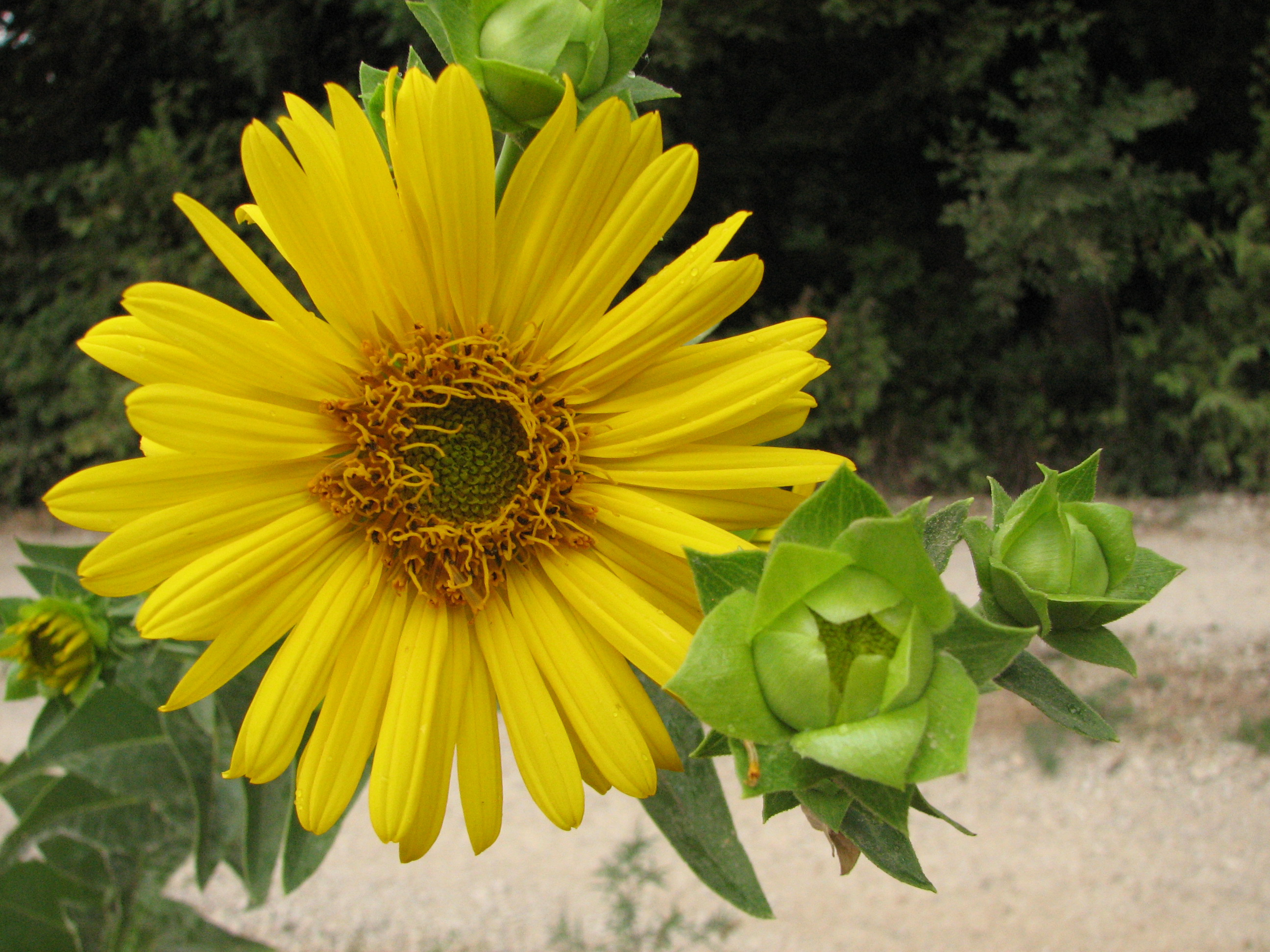 Silphium integrifolium flowers and buds.